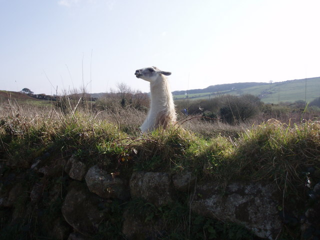 Llama at Trevarrack. Very keen to be photographed, the llama ran across the field to pose.